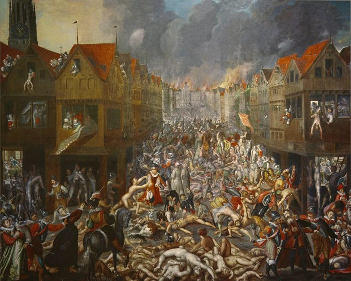 The "Spanish Fury" of 4 November 1576 in Antwerp. Anonymous painting, last quarter of 16th C. Oil on canvas, 119 × 145 cm. Antwerpen, Vleeshuis